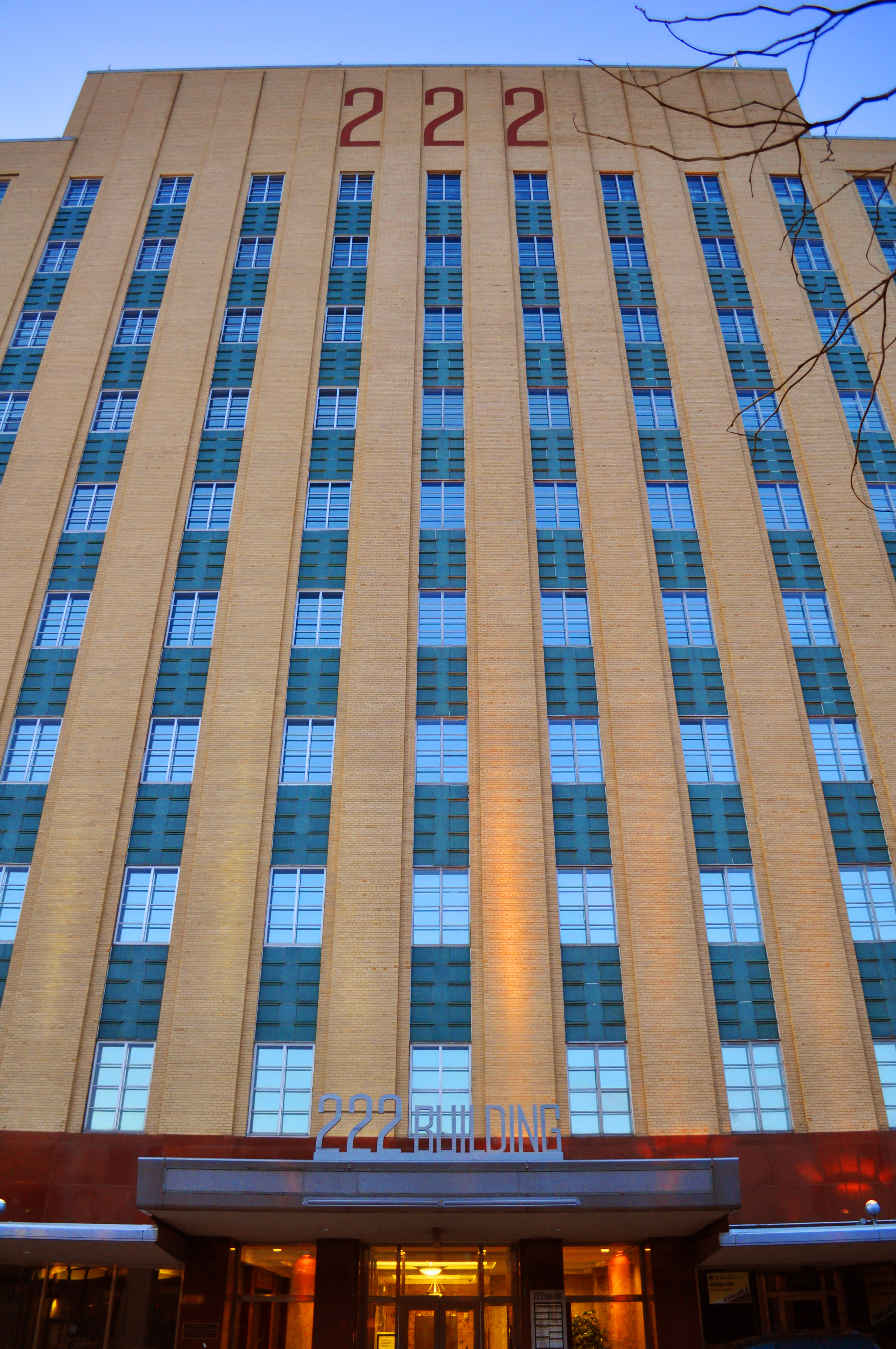 Former Aid Association for Lutherans building on College Avenue. Now known as the 222 Building.